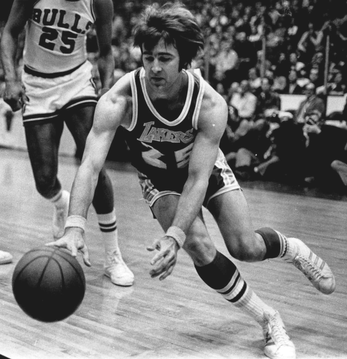 Professional basketball player Gail Goodrich